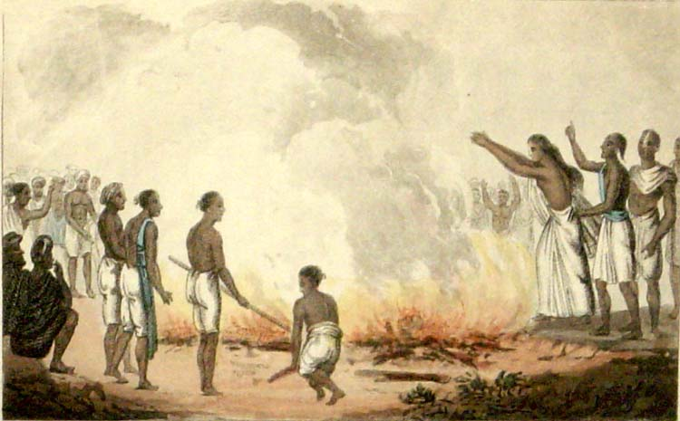 "Handcoloured engravings by Frederic Shoberl from his work 'The World in Miniature: Hindoostan'. London: R. Ackerman, 1820's."